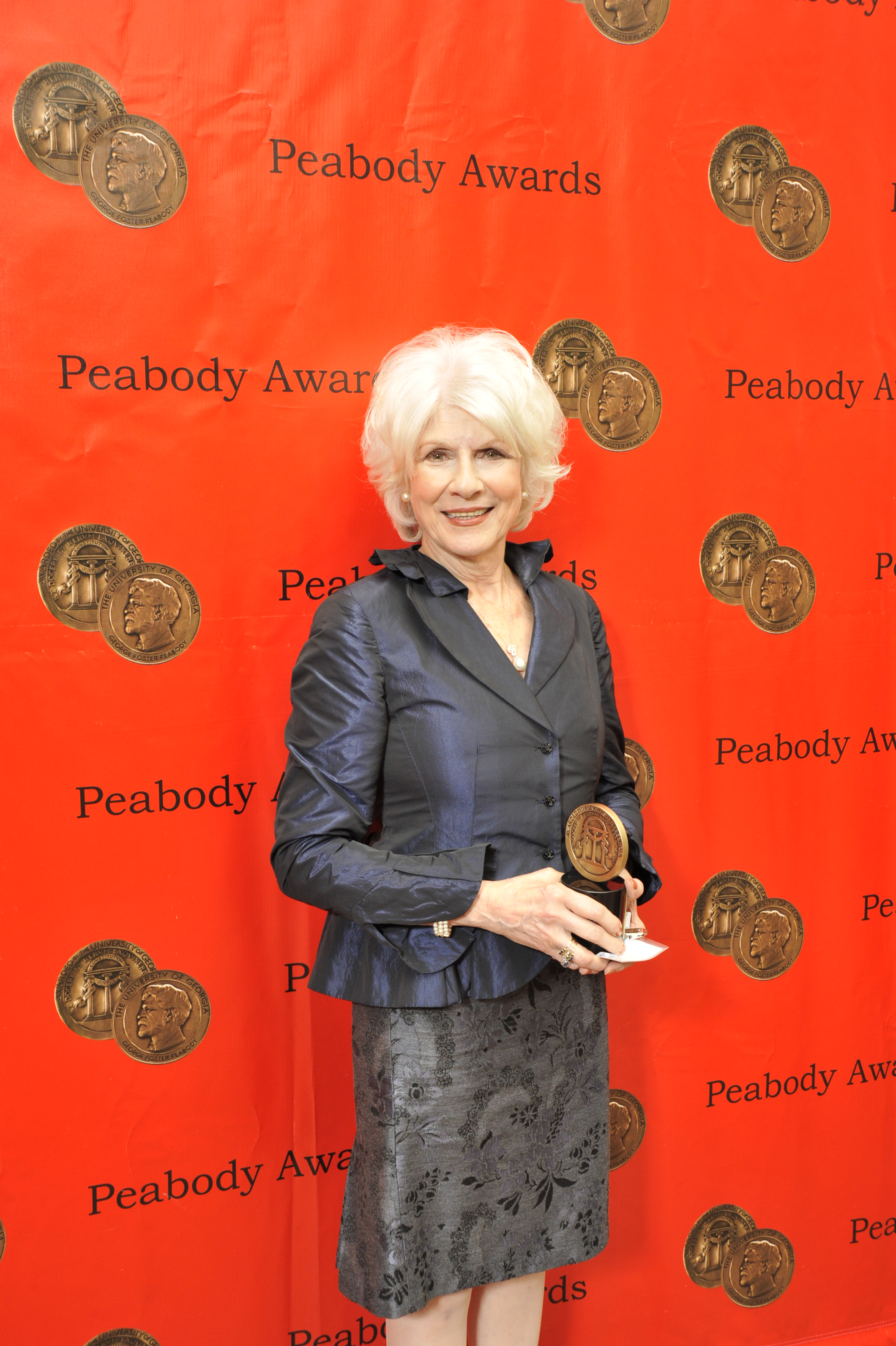 69th Annual Peabody Awards Luncheon Waldorf=Astoria Hotel New York, NY USA May 17, 2010